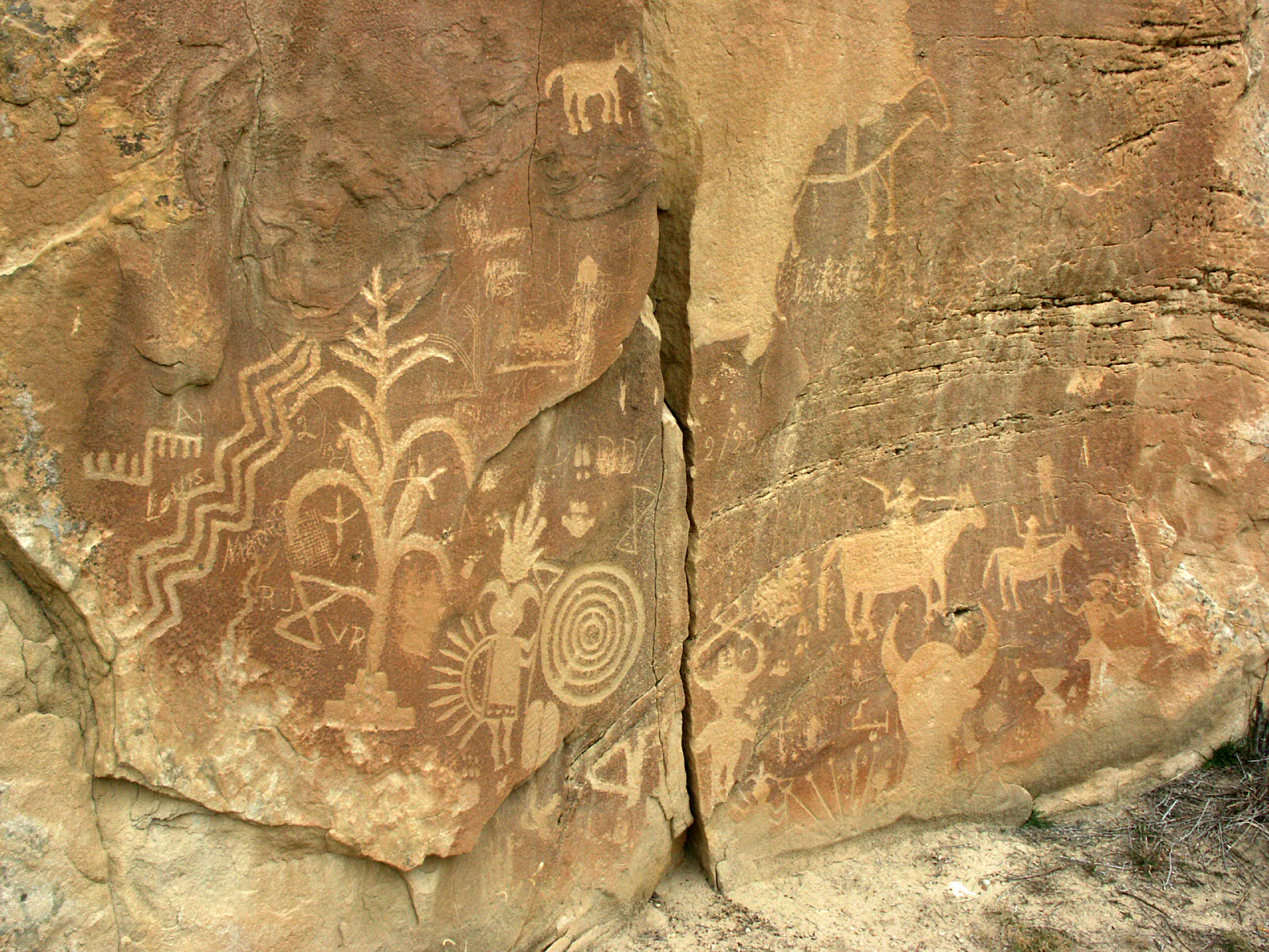 Main Panel at Crow Canyon Archaeological District, northwest New Mexico. Photo by camerafiend.